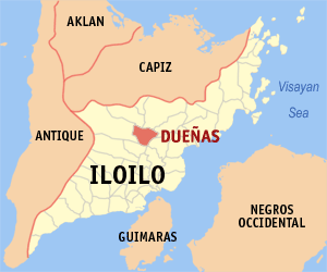 Map of Iloilo showing the location of Duenas